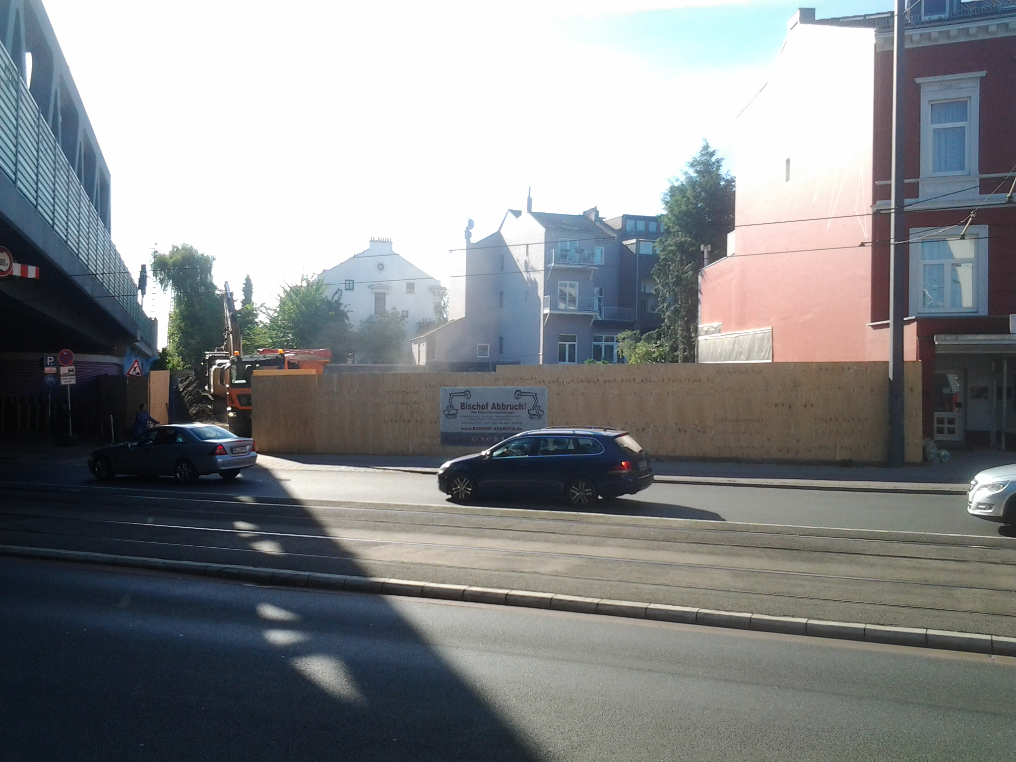 site of the former Concordia theater in Bremen, Germany torn down in 2016